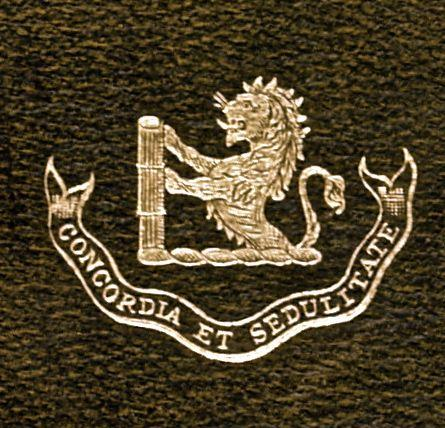 Crest A demi lion holding three arrows in pale points downwards tied with three ribbons; Motto CONCORDIA ET SEDULITATE